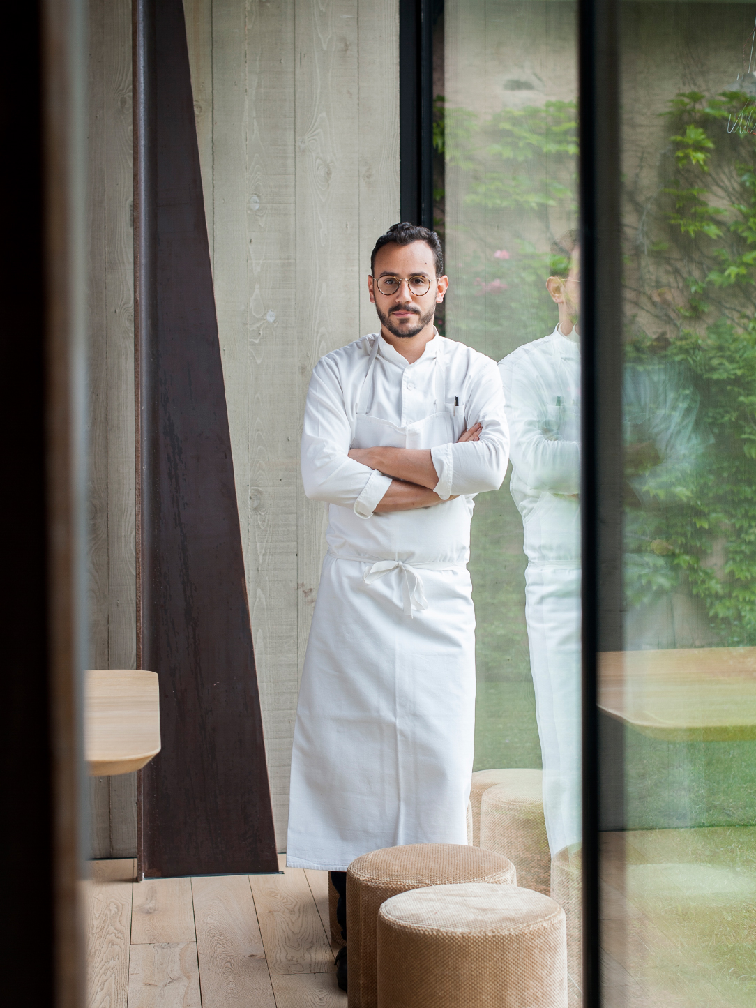 César Troisgros